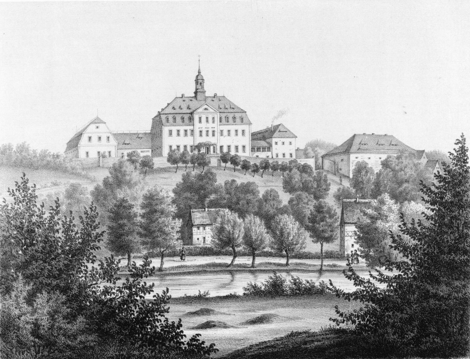 manor Wiesa in the Erzgebirge